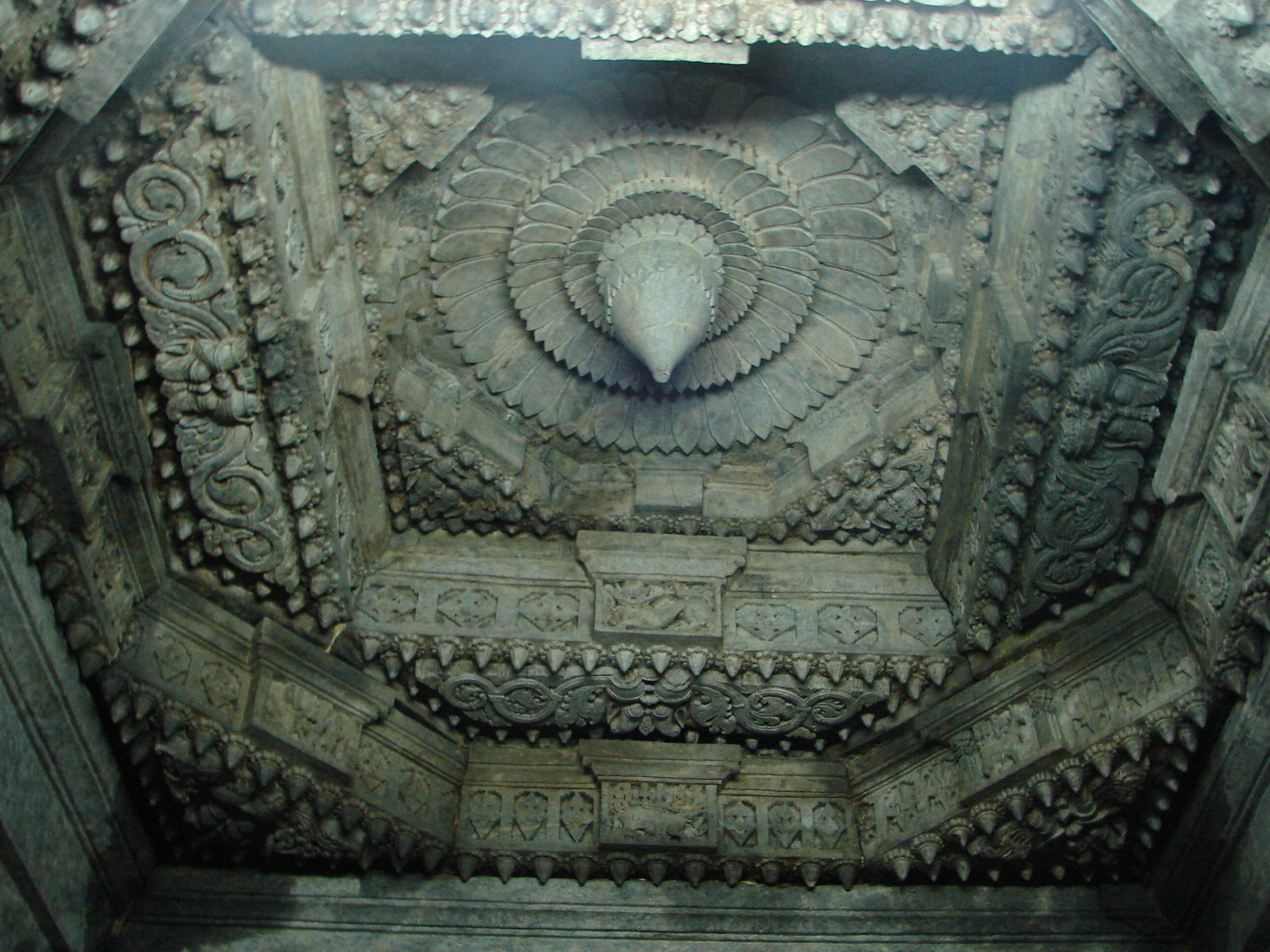 This photograph was taken by me at the Saumyakeshava temple in Nagamangala, Mandya district, Karnataka state, India. The stellate shrine and closed mantapa (hall) are a 12th century A.D. construction and is attributed to the Hoysala Empire. Seen here is a typically ornate bay ceiling inside the mantapa.